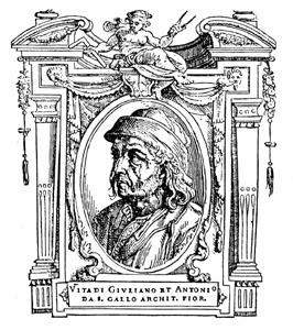 Illustratio from "Le Vite" by Giorgio Vasari, edition of 1568. For the artist portrayed see filename